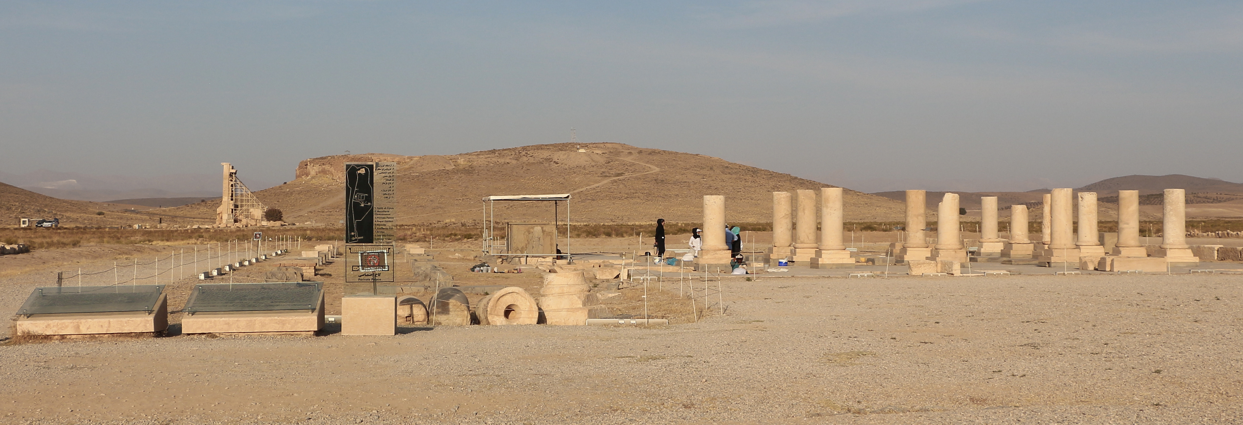 The Private Palace (Palace P), Pasargadae, Iran